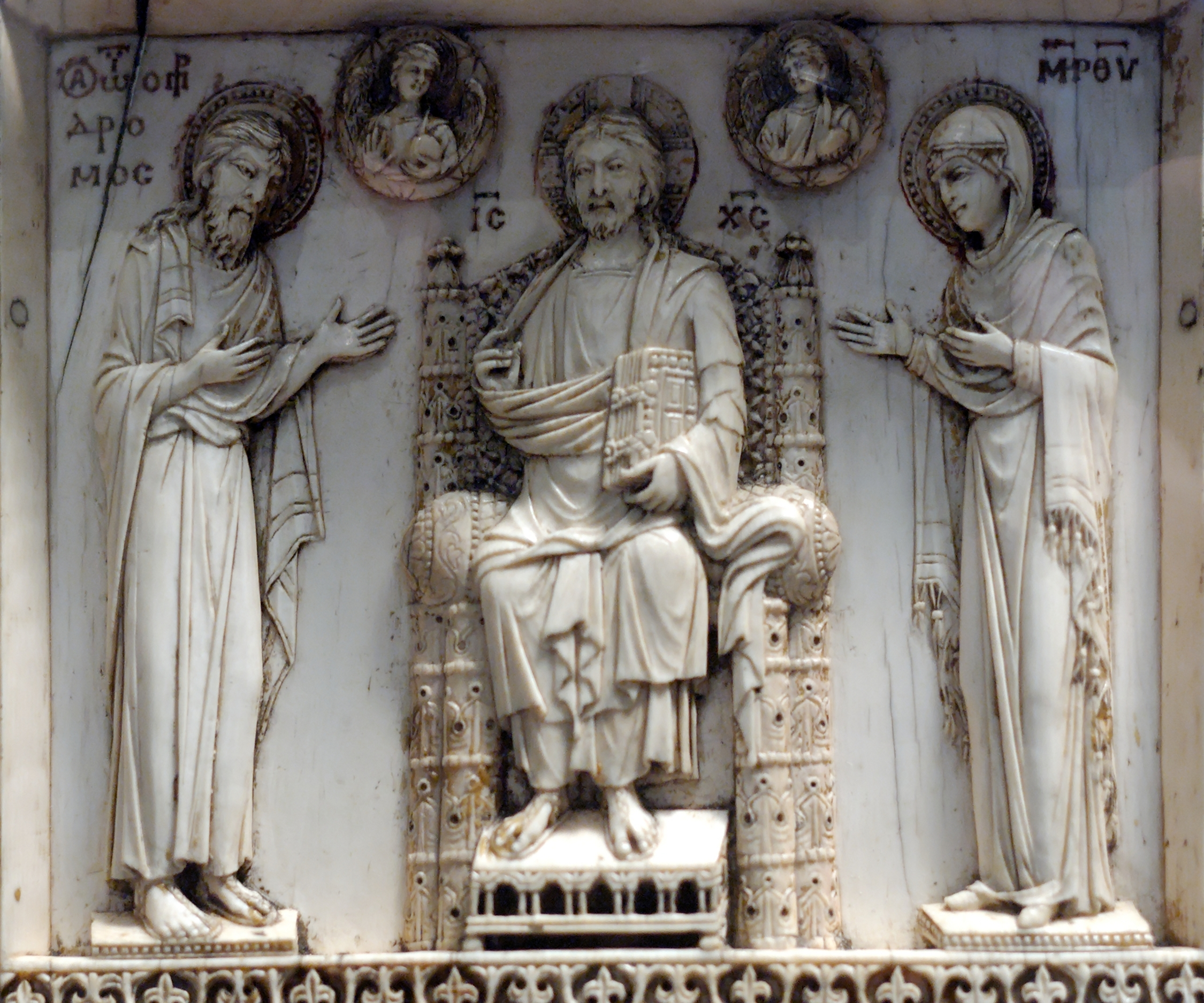 Jesus Christ, his mother and St John the Baptist. Harbaville Triptych: close-up on the top panel of the middle leaf, recto.